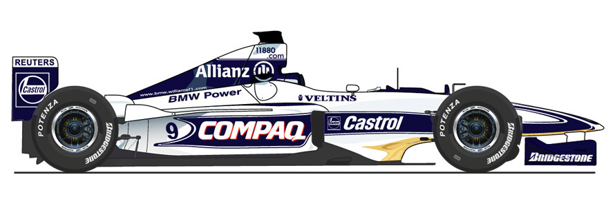 Williams FW22 Formula 1 Car